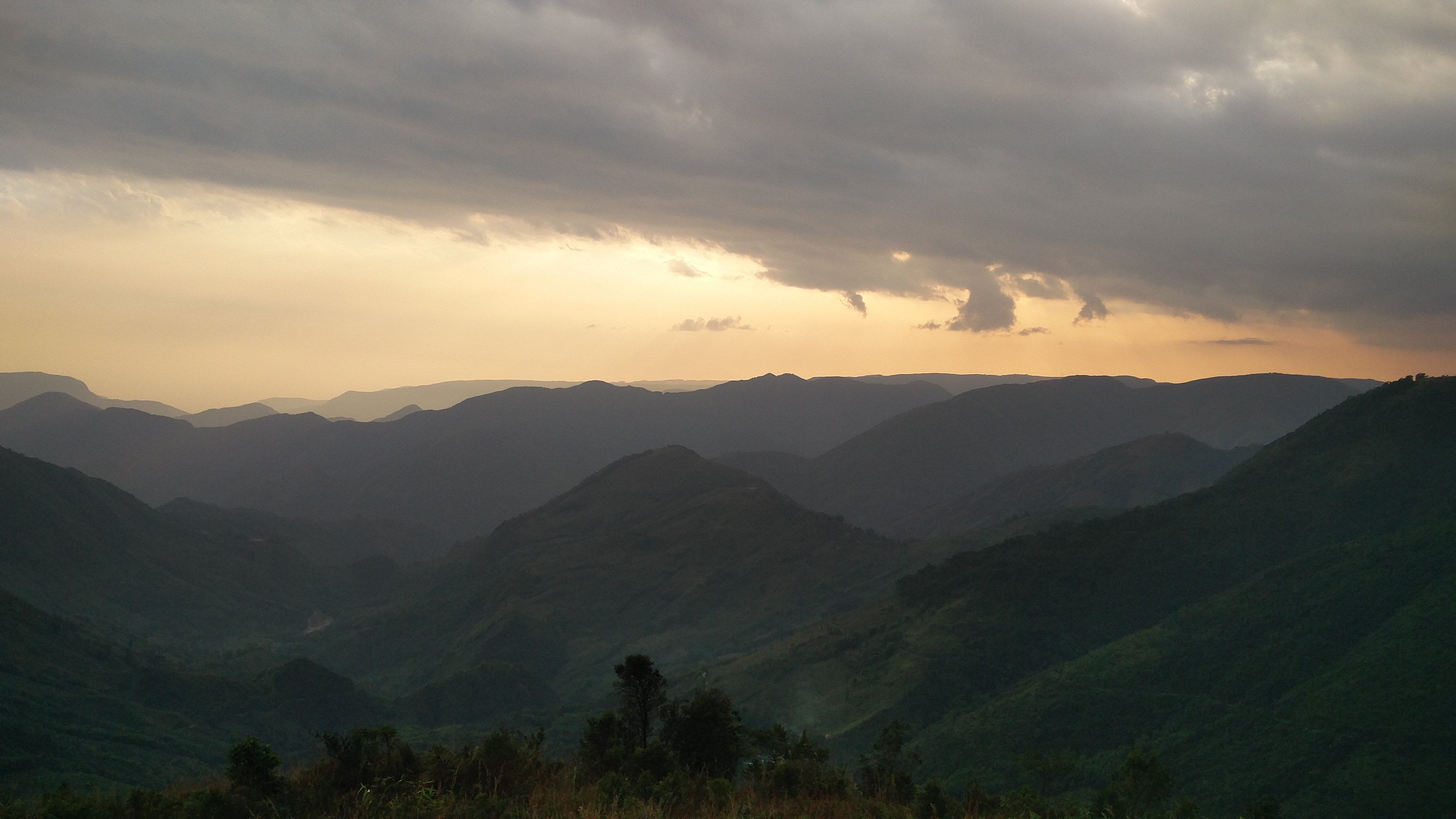 Mizo hills